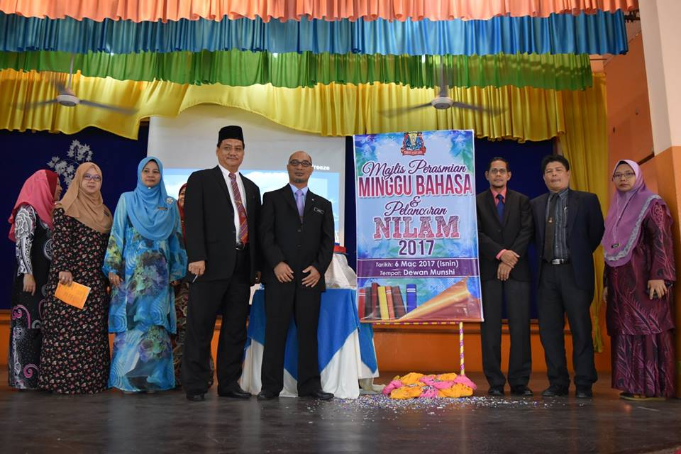 Pelancaran Minggu Bahasa